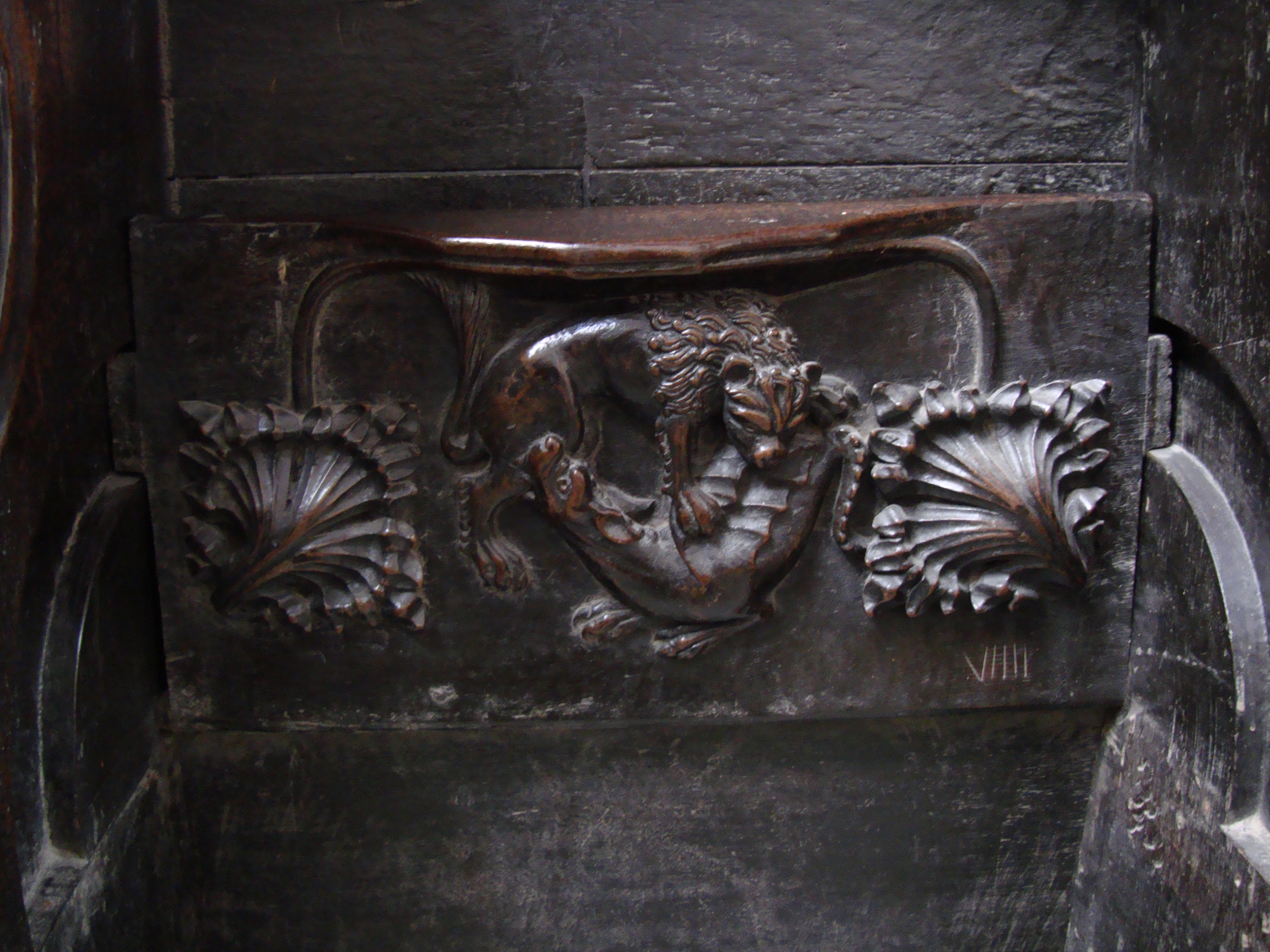 Photograph of detail of misericords under choir seats at St Mary's Cathedral, Limerick